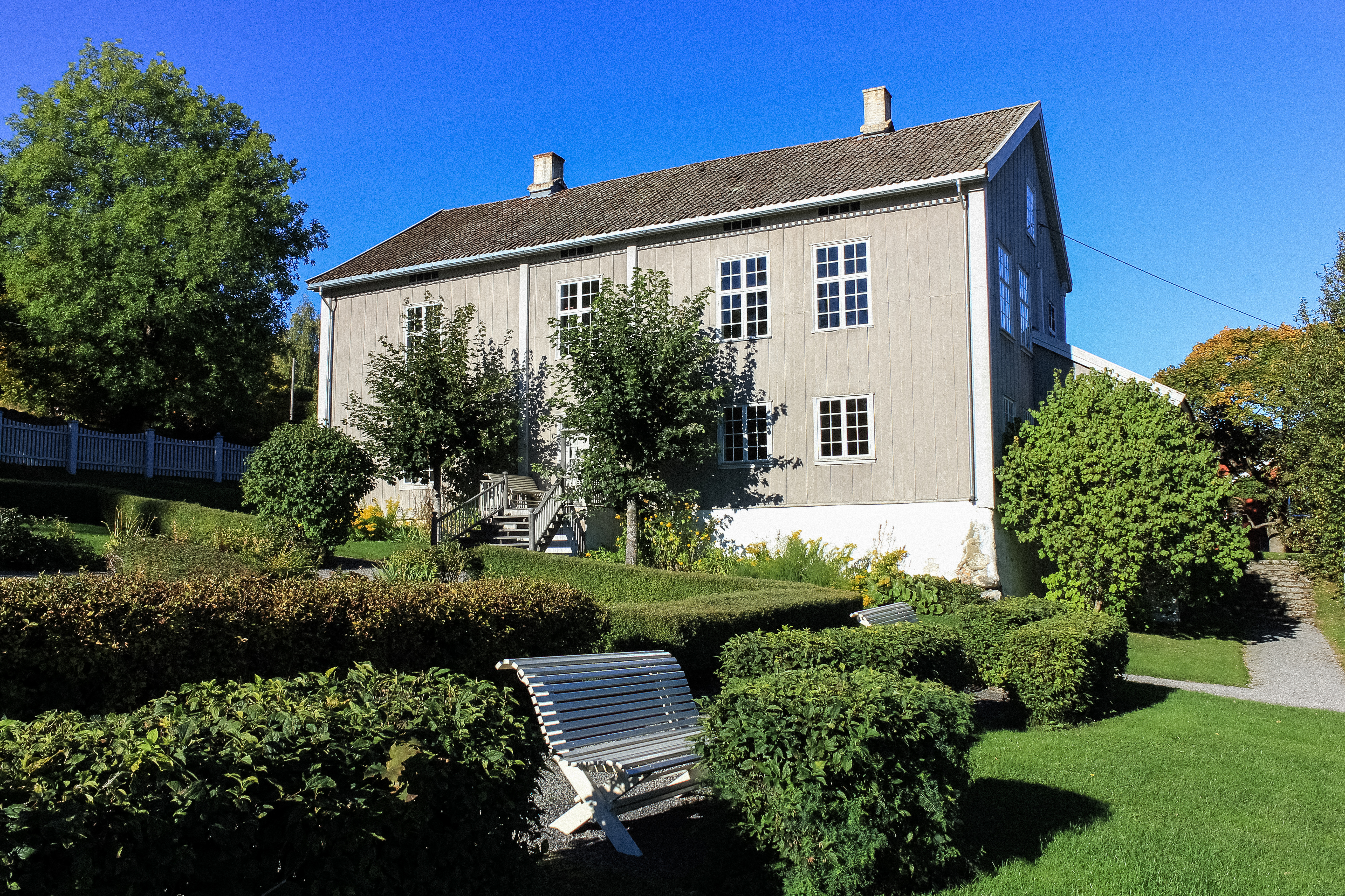 The Peder Balke Center at Kapp, Oppland, Norway. Peder Balke was a renown painter.